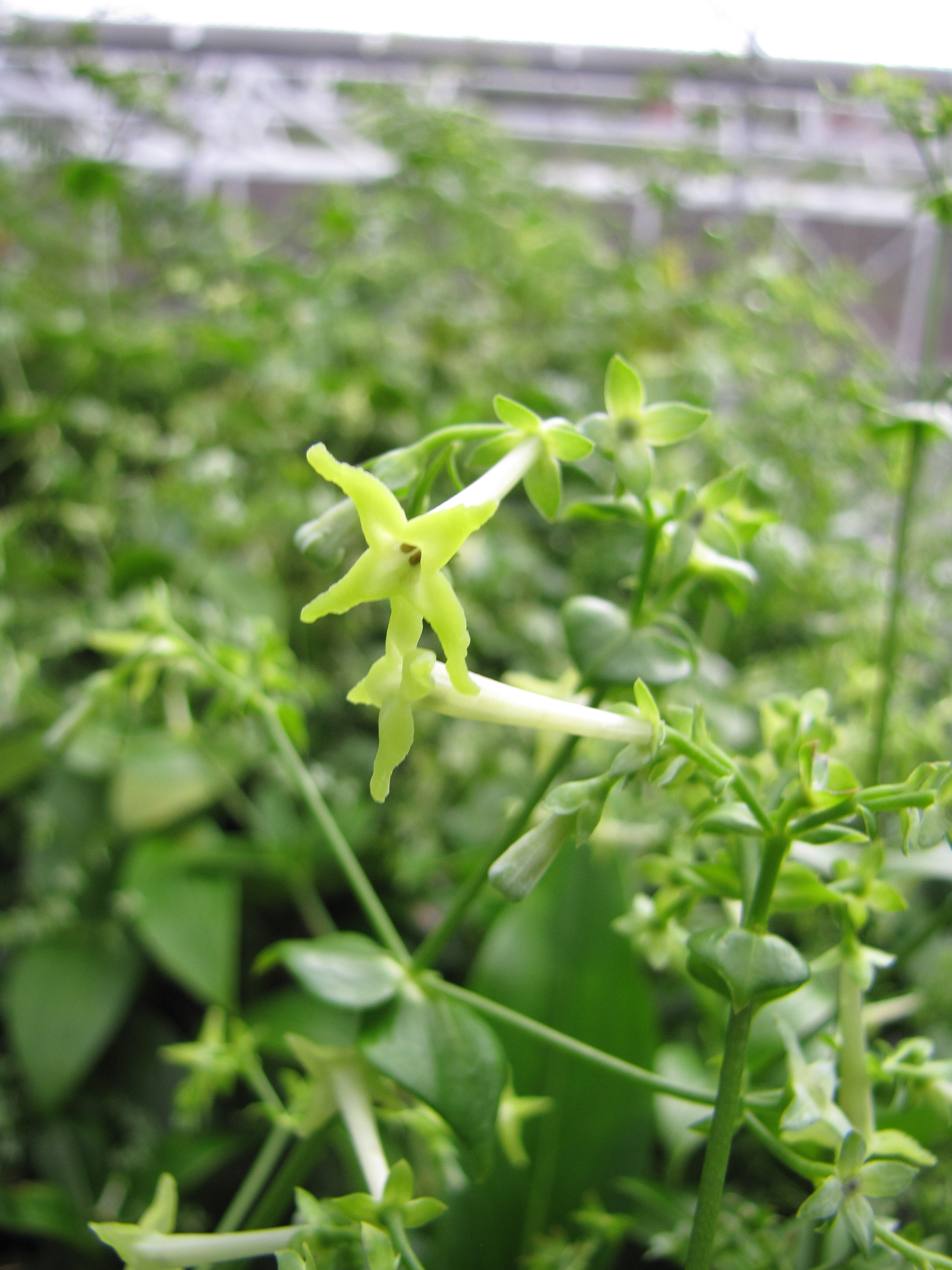 Kadua laxiflora (Manono) Flowers at Olinda Rare Plant Nursery, Maui, Hawaii.